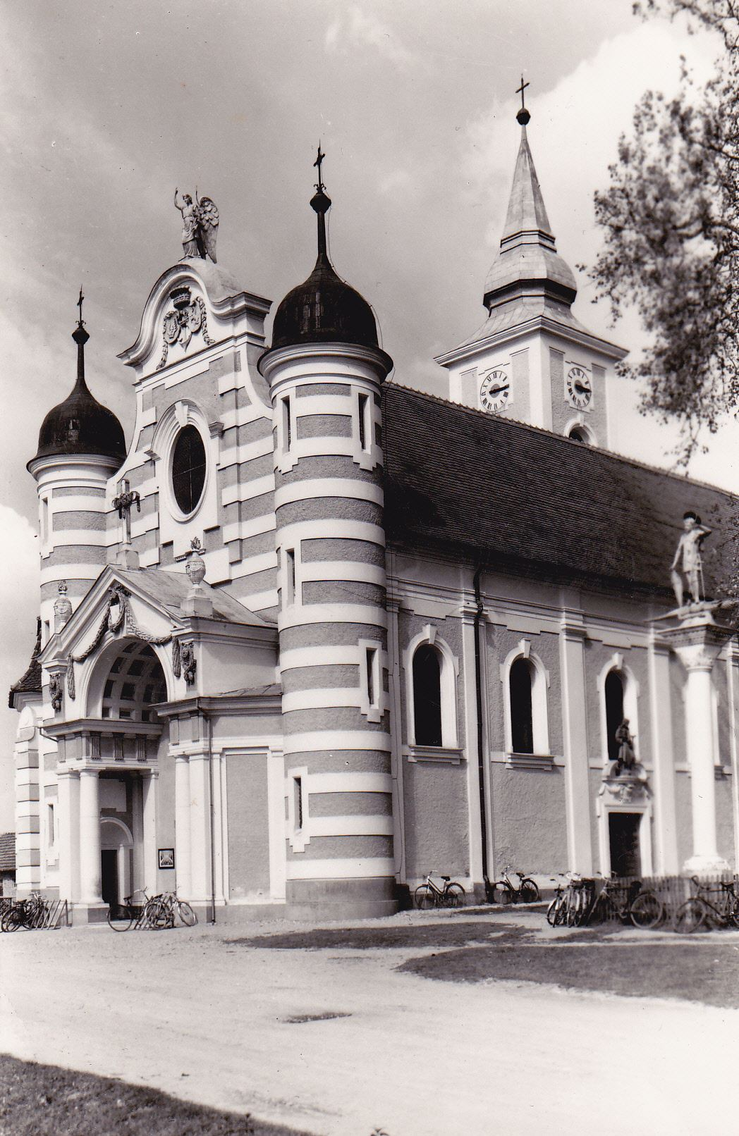 Postcard of Beltinci church.